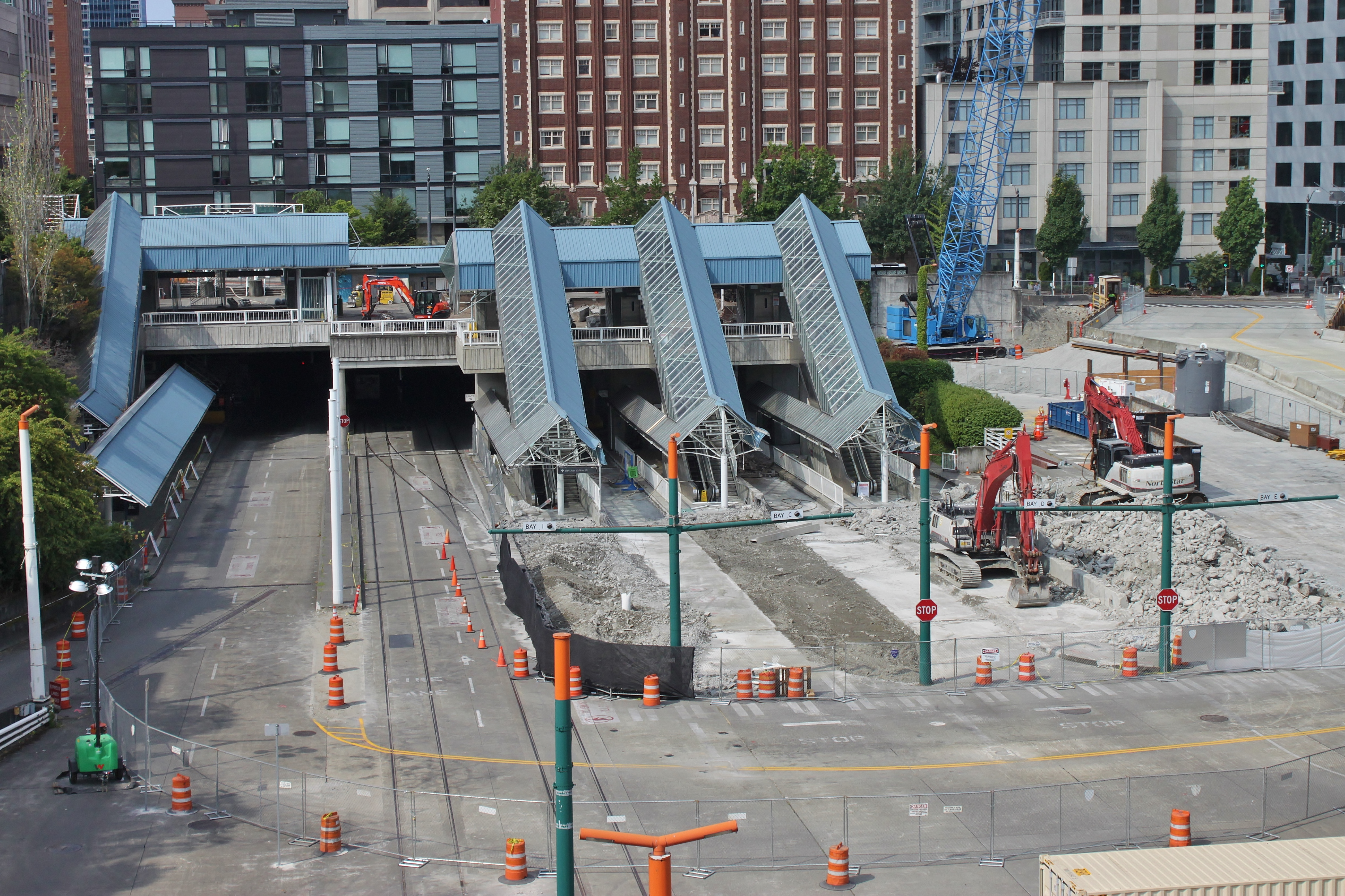 Demolition of platforms and other structures at Convention Place station, as seen a week after its closure in July 2018. The site will be used by the Washington State Convention Center for an expanded exhibition hall.